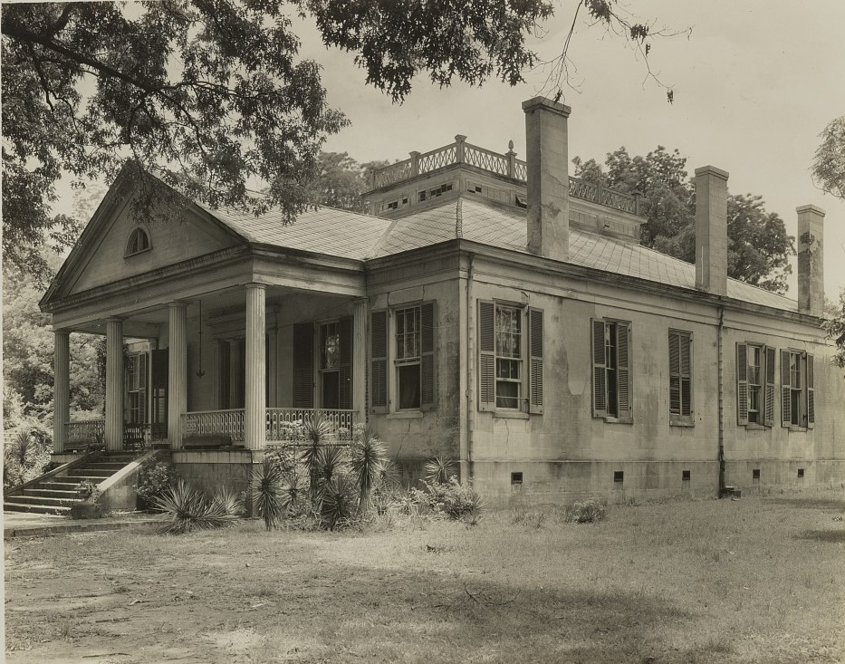 Title Lansdowne, Natchez, Adams County, Mississippi Contributor Names Johnston, Frances Benjamin, 1864-1952, photographer Created / Published 1938. Subject Headings - United States--Mississippi--Adams County--Natchez - Widows'walks. - Pediments. - Columns. - Porches. - Railings. - Houses. - Mississippi--Adams County--Natchez Format Headings Photographic prints. Notes - Title from photographer's inventory. - Mr. David Hunt gave plantation to his daughter when she married Mr. George M. Marshall. The Marshall's built the house. Georgian, with Doric columns and wrought iron railing with lyre motif. - Building/structure dates: ca. 1852. - Corresponding Carnegie Survey of the Architecture of the South neg. no. 1043. Library has no record of having this neg. - Related names: George M. Marshall, 3rd. - Gift; Anne E. Peterson; 2011; (DLC/PP-2011:206) - Forms part of: Carnegie Survey of the Architecture of the South (Library of Congress). Medium 1 photographic print. Call Number/Physical Location LOT 11838-1 [item] [P&P] Repository Library of Congress Prints and Photographs Division Washington, D.C. 20540 USA Digital Id ppmsca 32362 //hdl.loc.gov/loc.pnp/ppmsca.32362 Control Number csas201207190 Reproduction Number LC-DIG-ppmsca-32362 (digital file from photograph) Rights Advisory No known restrictions on publication. Online Format image Description 1 photographic print.